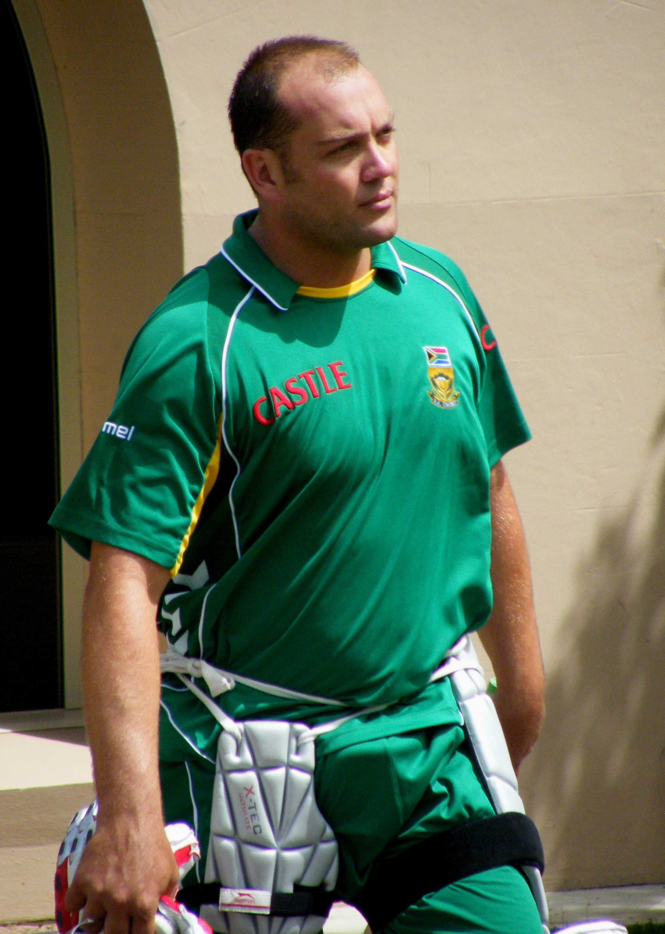 Jaques Kallis - South African Cricket New Years Day 2009 training at the Sydney Cricket Ground.